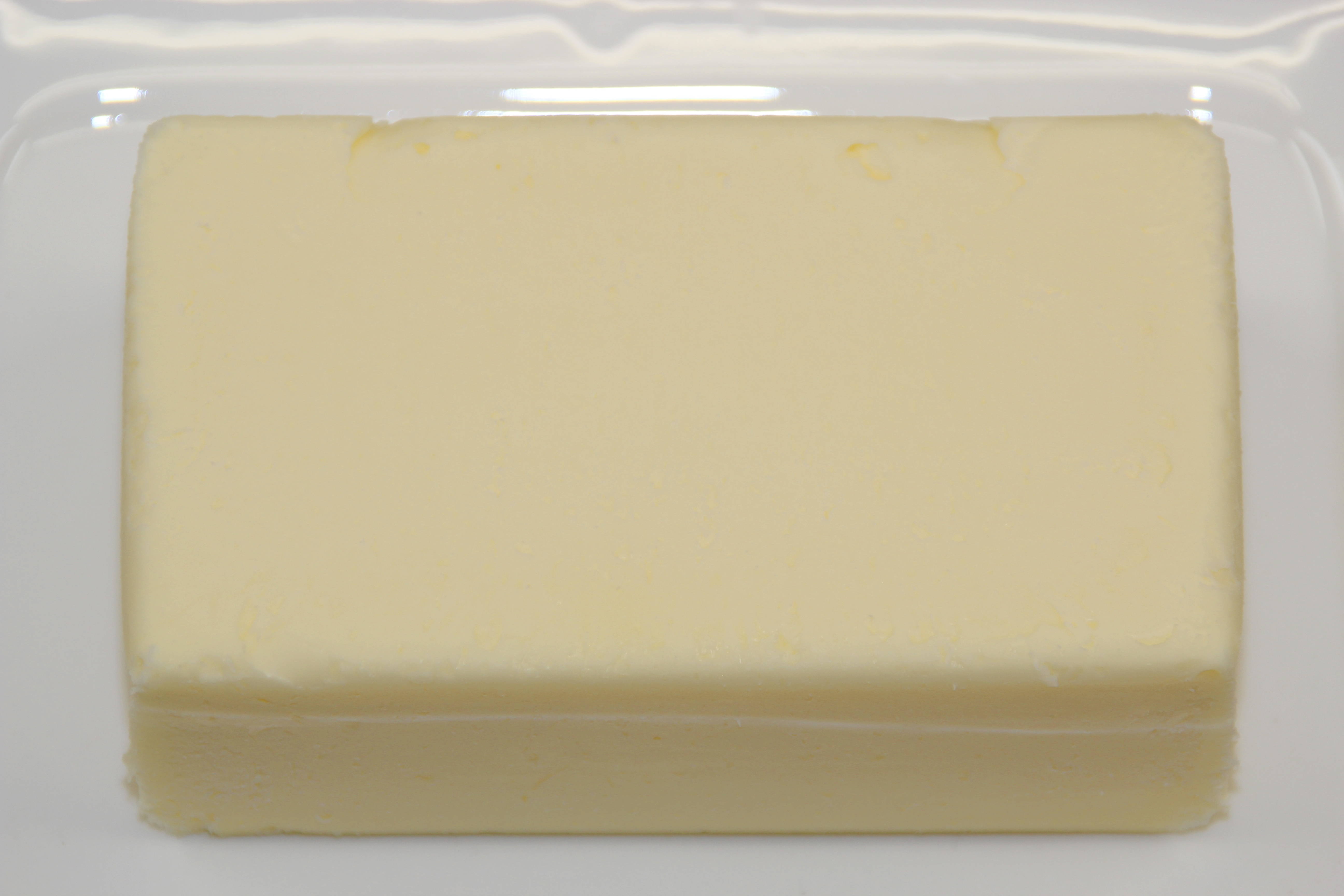 Beurre d'Isigny (Butter from Isigny) in France.